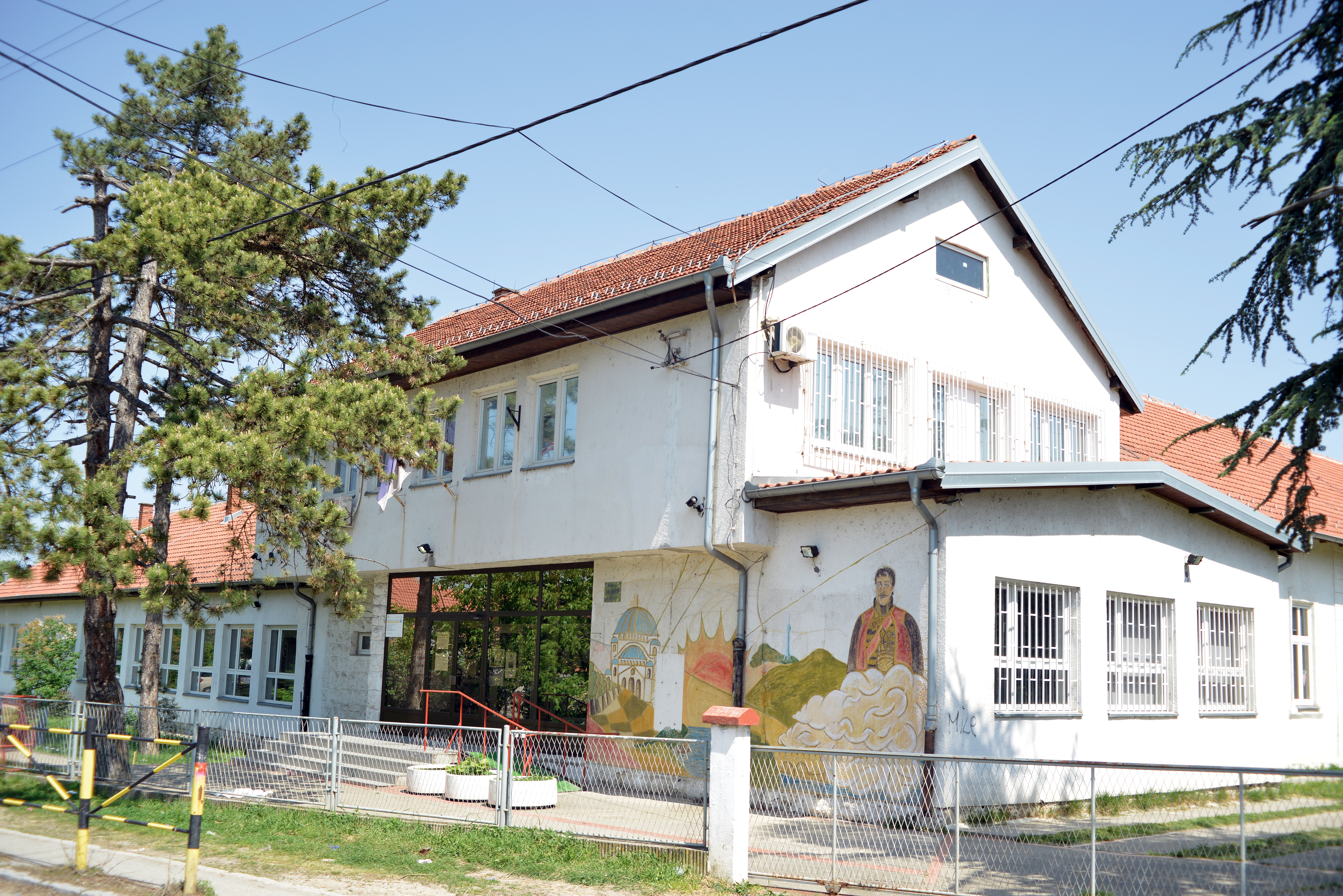 Primary school in Ostružnica, suburban settlement of Čukarica, a municipality of the city of Belgrade, Serbia